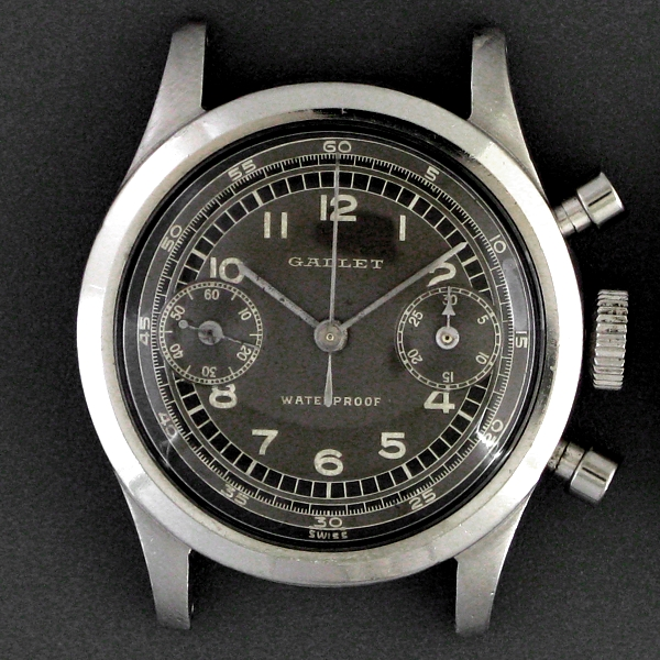 Gallet clamshell 600x600 3